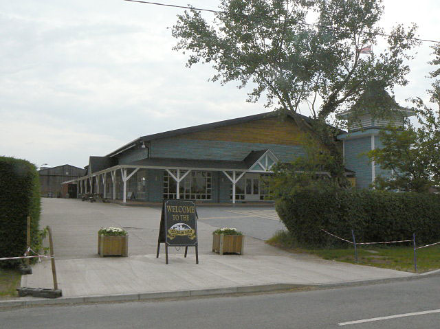 Ice Cream Farm (Cheshire Farm, by Tattenhall, Cheshire)